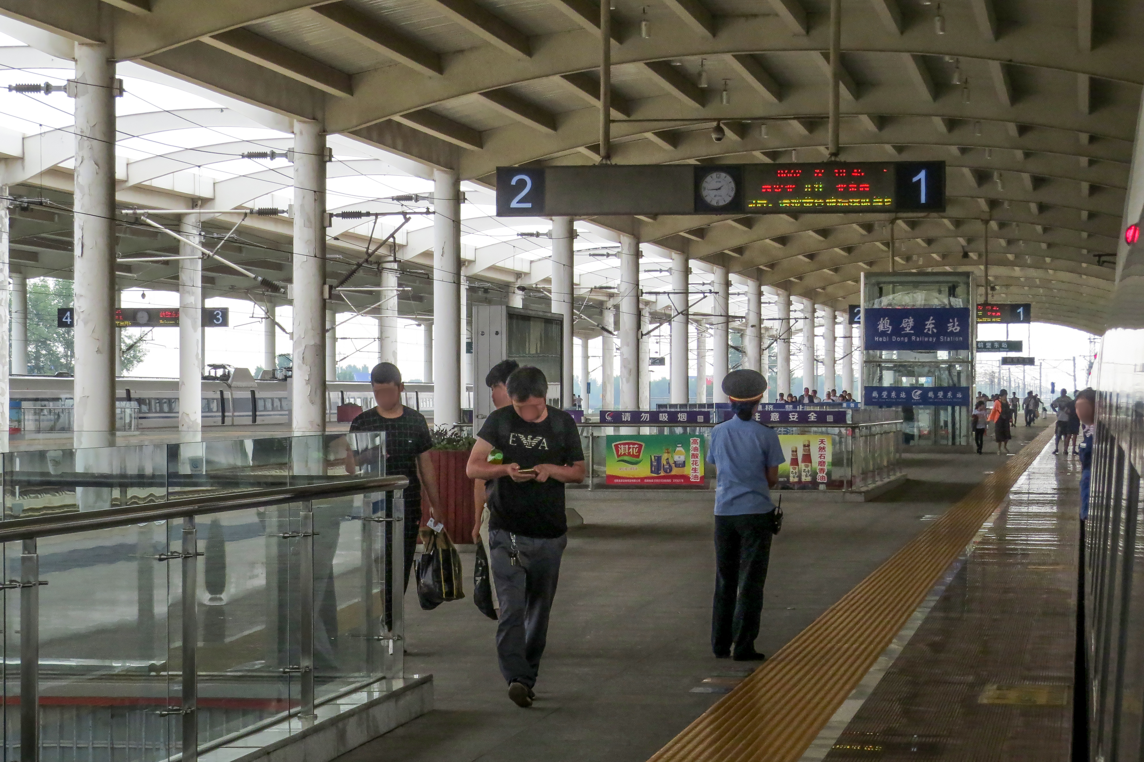 Hebi, where the Qi River is located in.